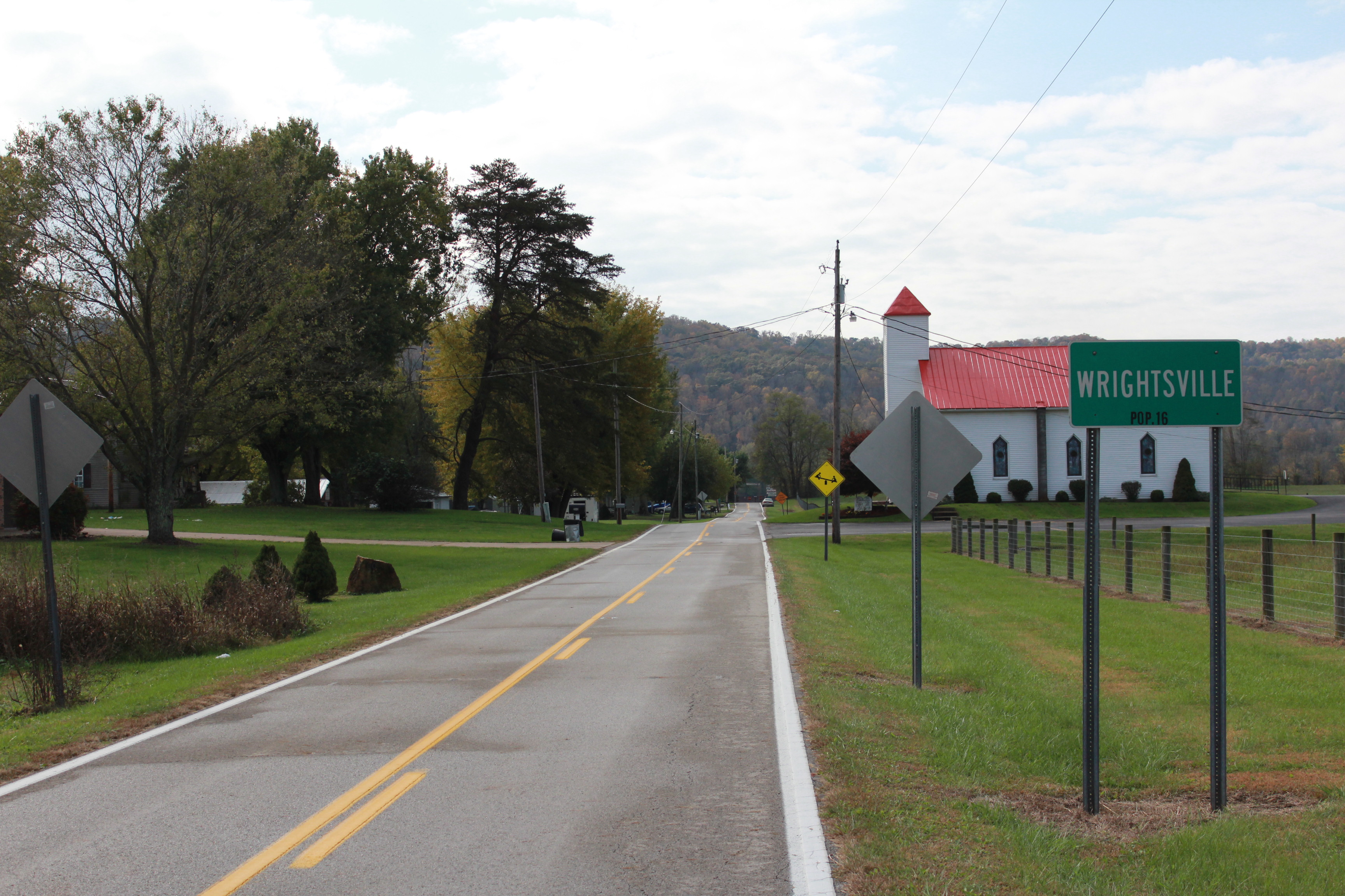 Entering into Wrightsville, Ohio on Ohio State Route 247 South in Adams County, Ohio.